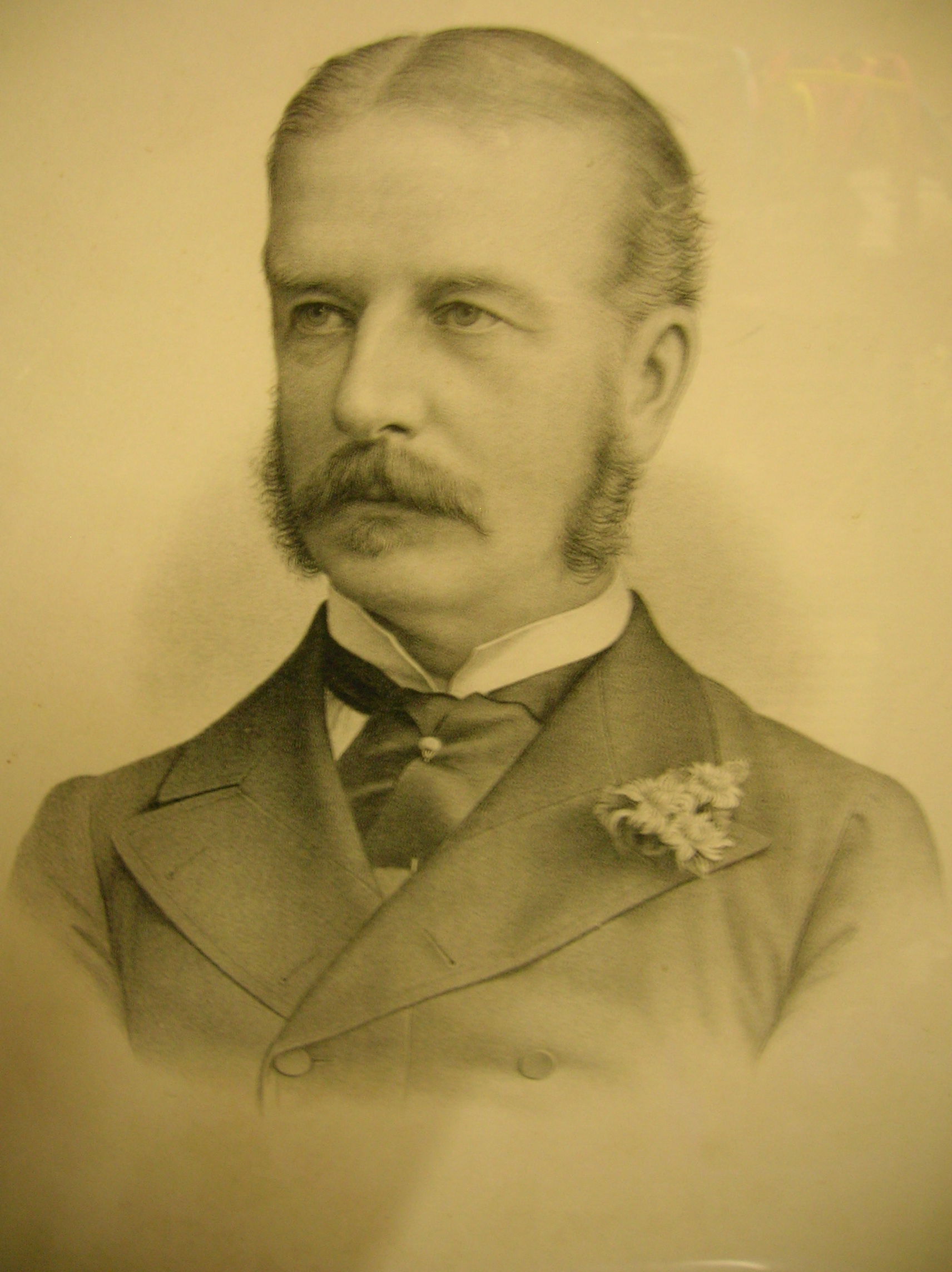 Commissioner Vernon of Auchans House, Dundonald, Ayrshire. Vernon was employed by the Earl of Eglinton to run his estates. 1880